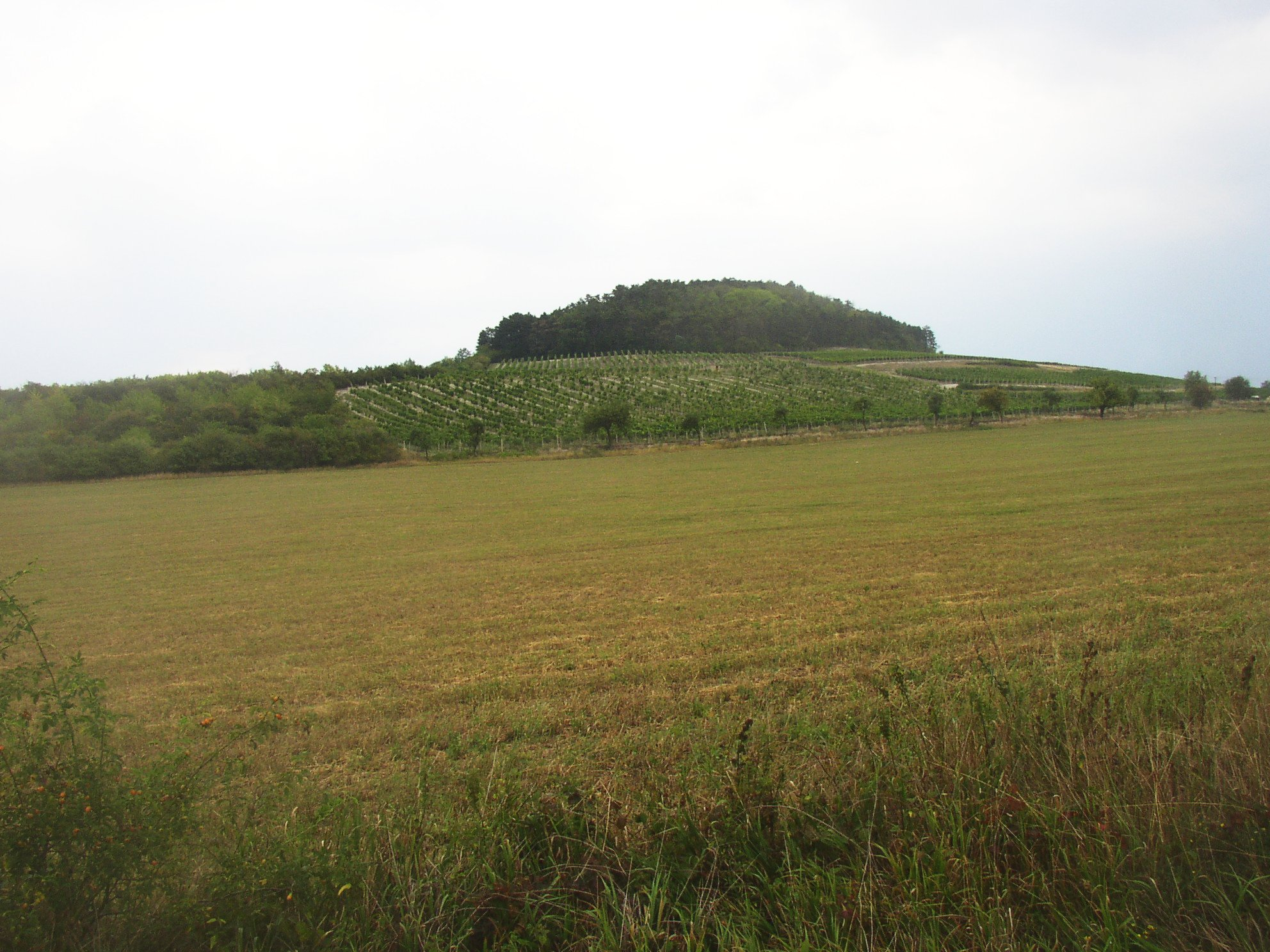 Hill of Sovice (278 m) near Roudnice nad Labem, Czech Republic, as seen from west.